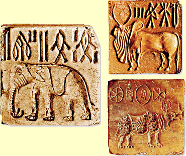 Photographs of three different seals from early river valley civilizations